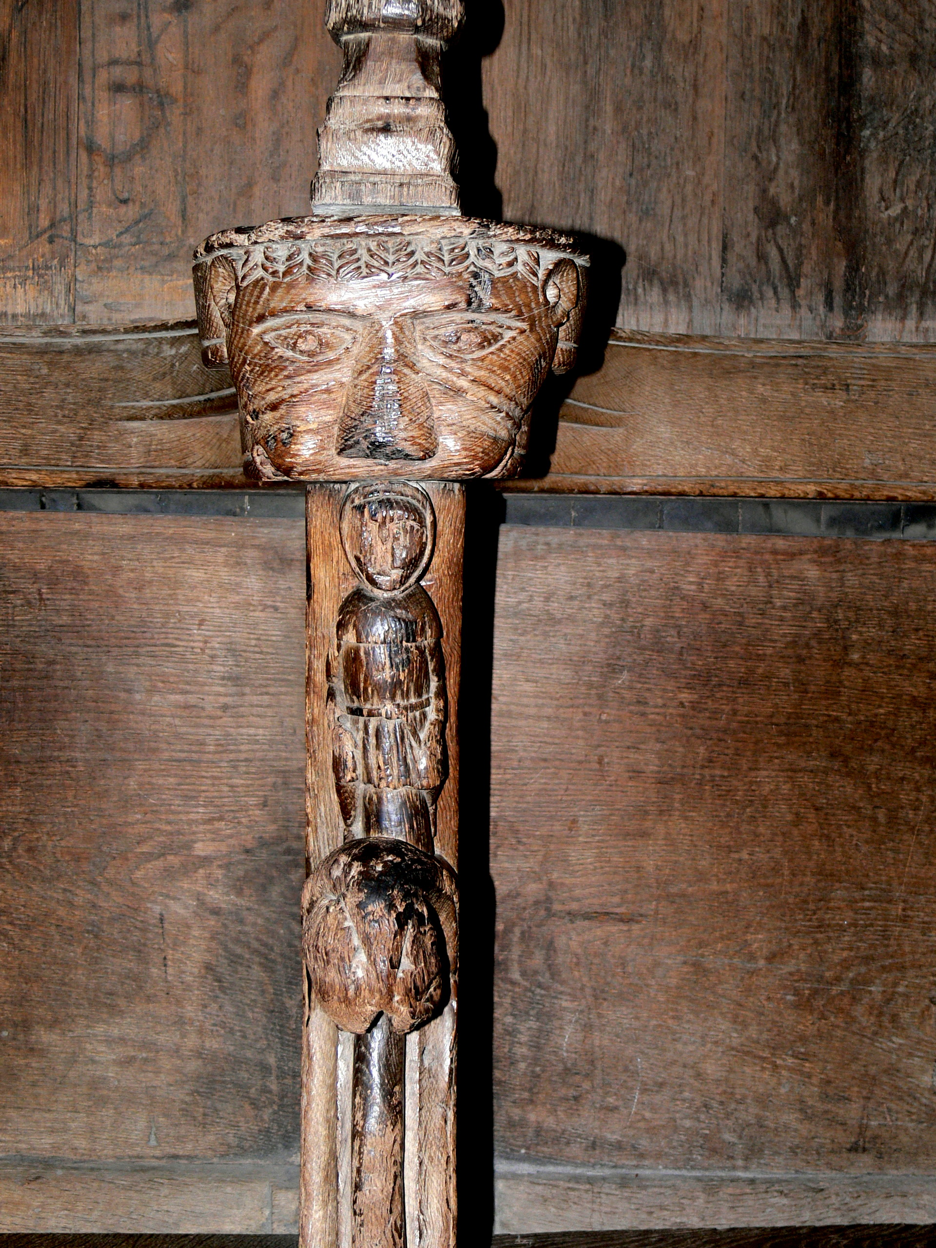 Lund Cathedral ( Sweden ). Choir stalls ( 1340s ): Misericord.